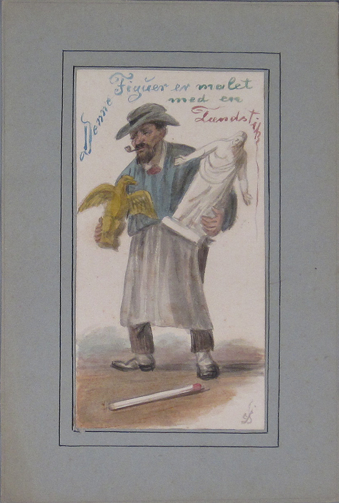 Series of 10 watercolours of Copenhagen eccentrics. Sold at as Lot No. 2087242 on 2 February, 2011. 21 x 11(30 x 20) cm.